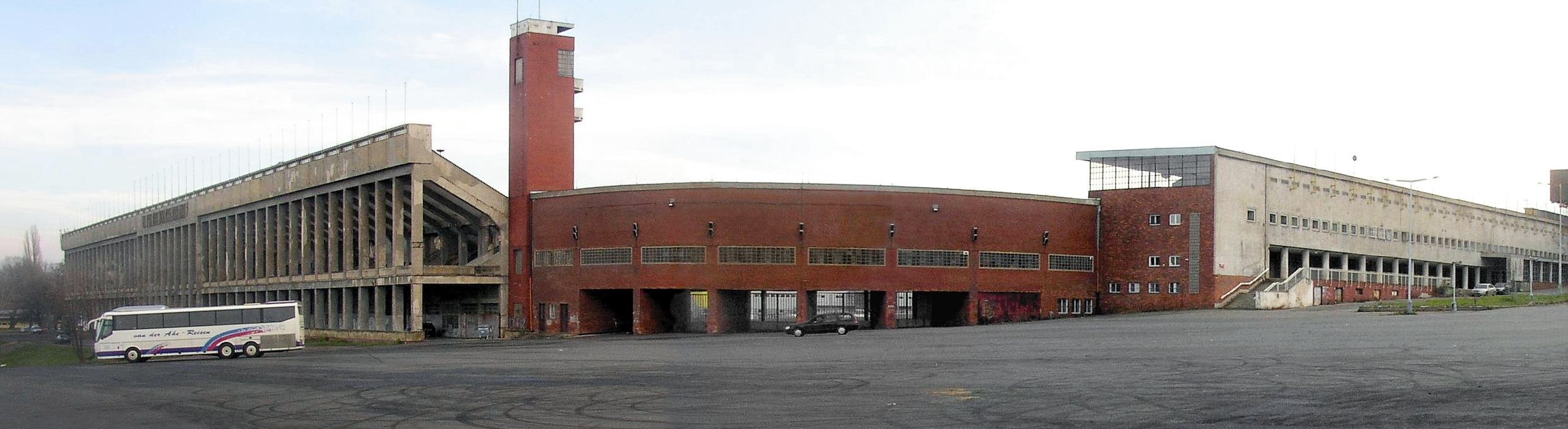 Strahov Stadium in Prague, Czech Republic. A view from northwest.